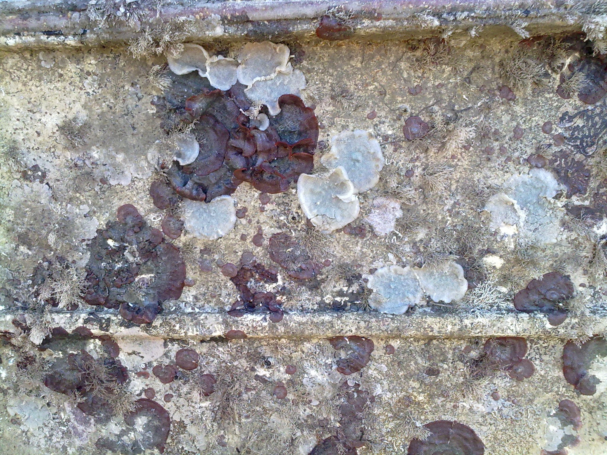 Boat fouling organisms